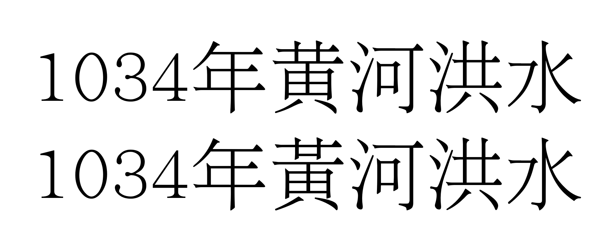 The name of the 1034 Yellow River Flood Name in Chinese Characters. Simplified Chinese is on top (1034年黄河洪水), and traditional is on the bottom (1034年黃河洪水). The font used is Babelstone Han, which uses a free, public license.